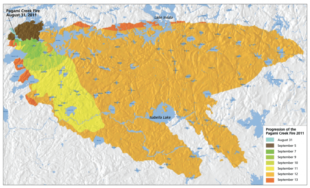 Pagami Creek Fire, BWCA 2011. Fire progression map courtesy USDA Forest Service-Superior National Forest.